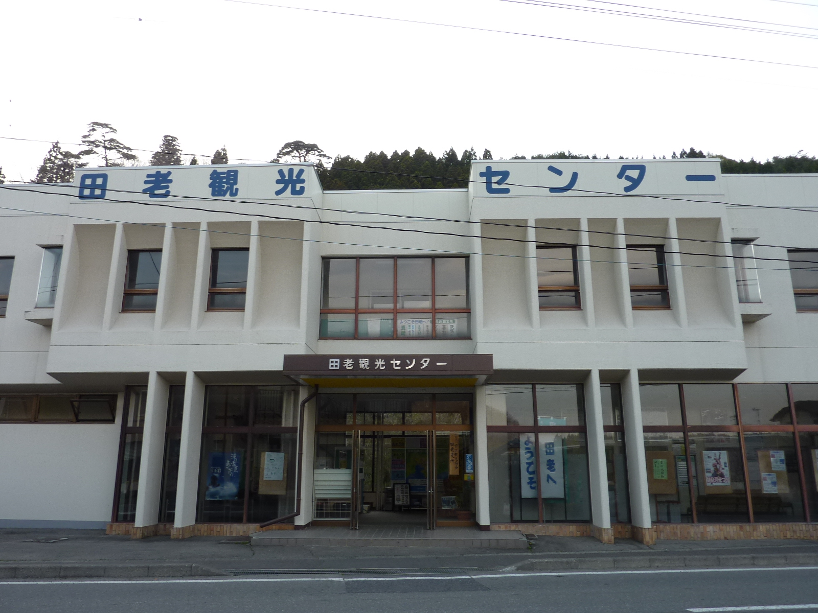 Taro Tourist Office and Taro Station on Sanriku Railway Kita Riasu Line, in Taro, Miyako City, Iwate, Japan